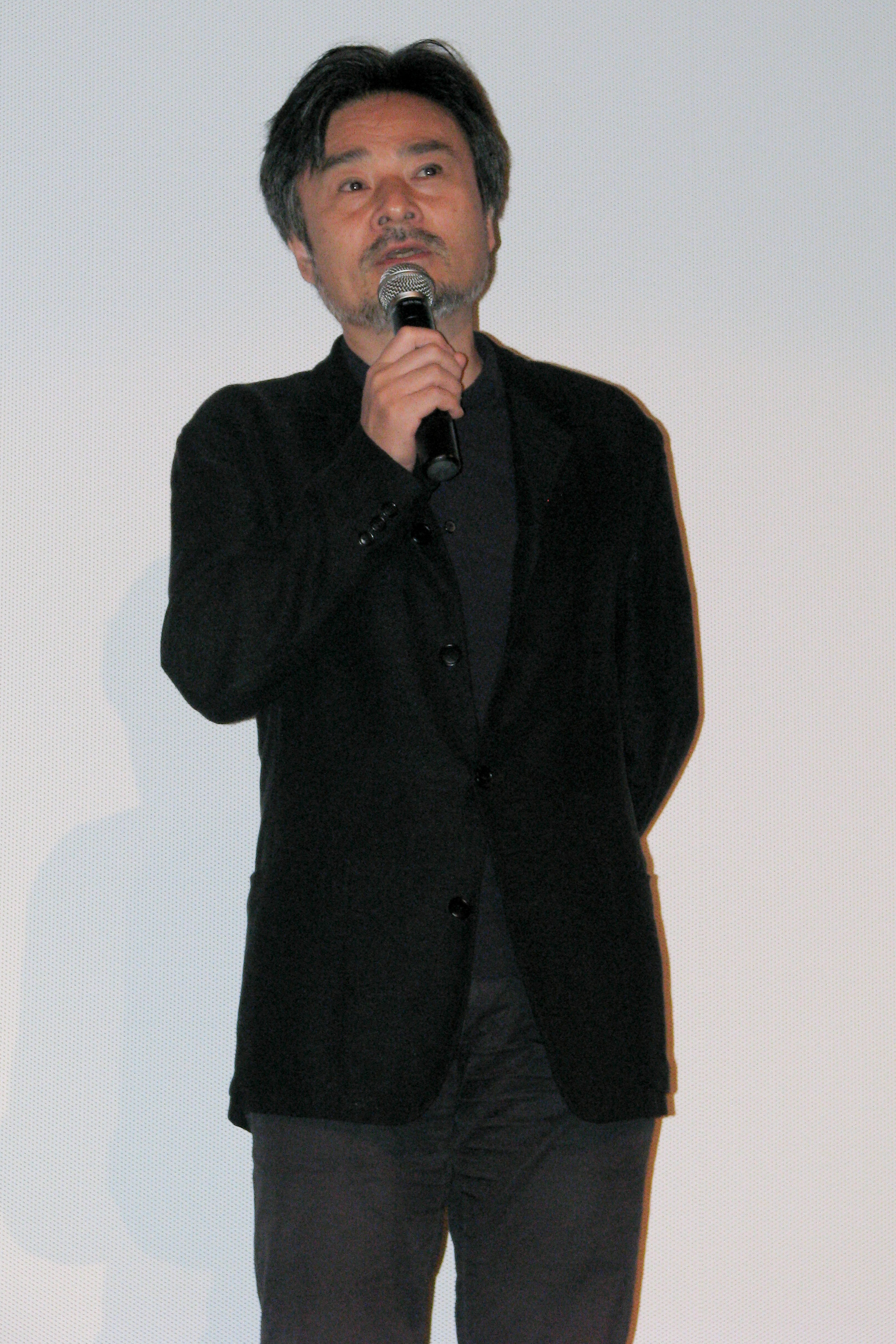 Director Kiyoshi Kurosawa at the "Tokyo Sonata" Q&A, Toronto International Film Festival 2008